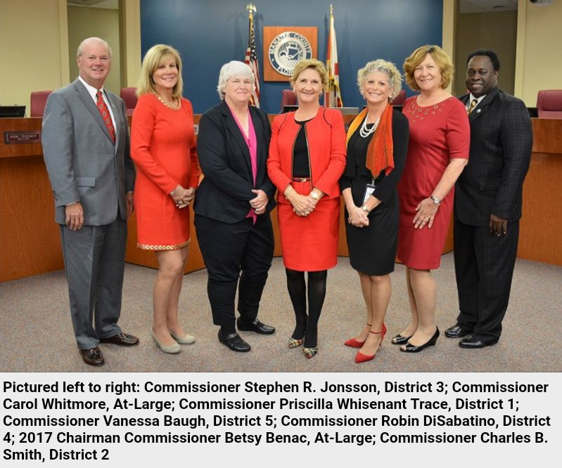 Picture of the members of Manatee County board of commissioners